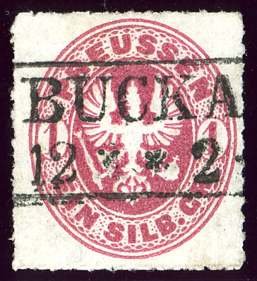 Stamp of Prussia, 1 SilberGroschen, issue 1861, cancelled at BUCKAU (Sachsen-Anhalt).